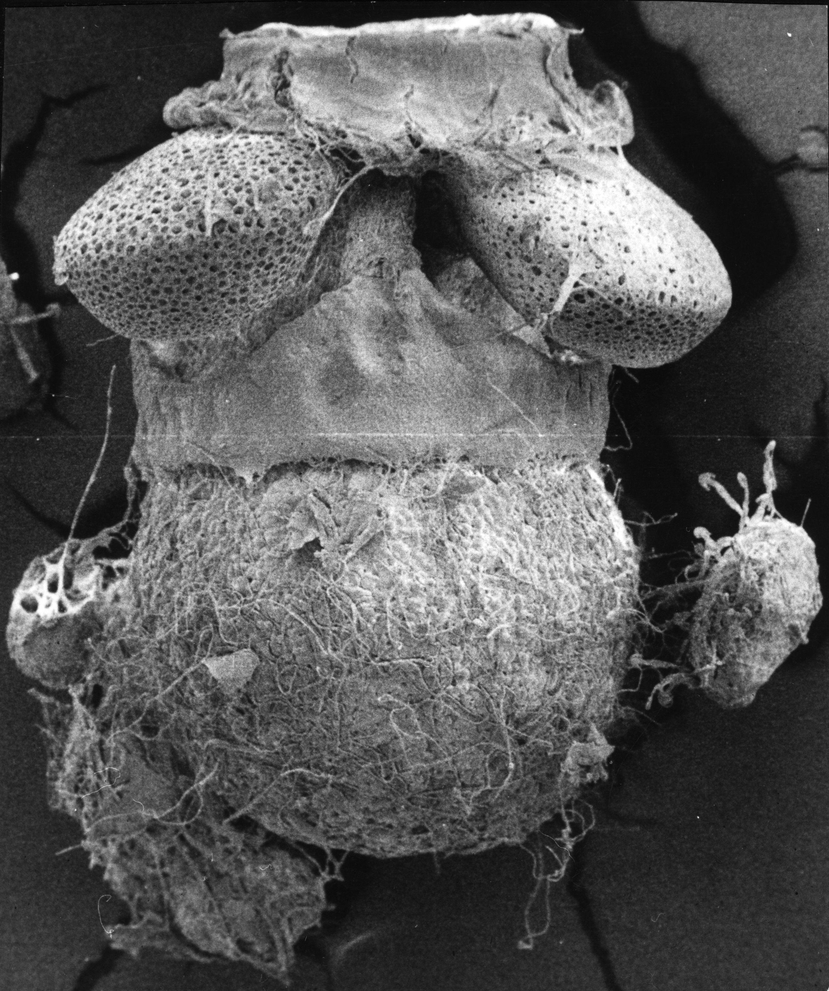 Scanning Electron Micrograph (SEM) of a megaspore of the genus Azolla with adhering massulae from Postglacial sediments of Laguna El Junco, Galápagos Island of San Cristobal.